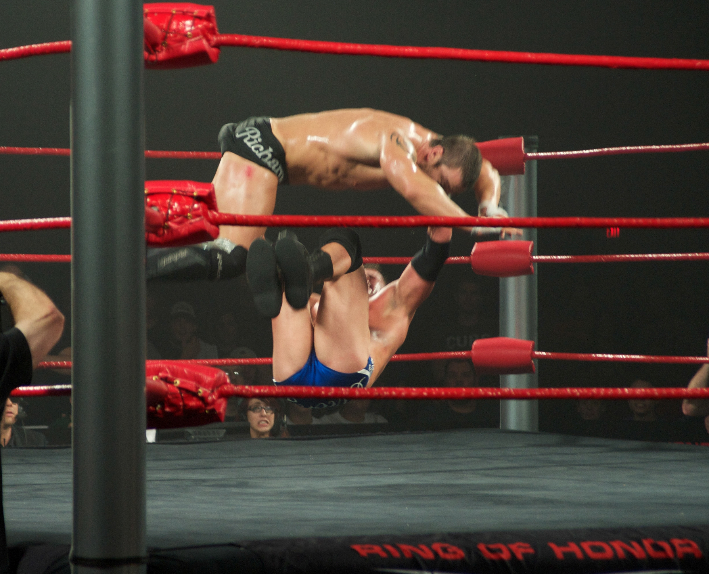 Professional wrestler Roderick Strong performing a gutbuster.